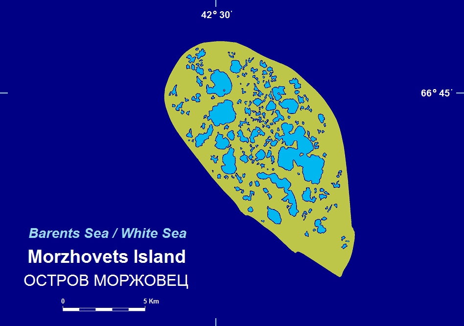 color map